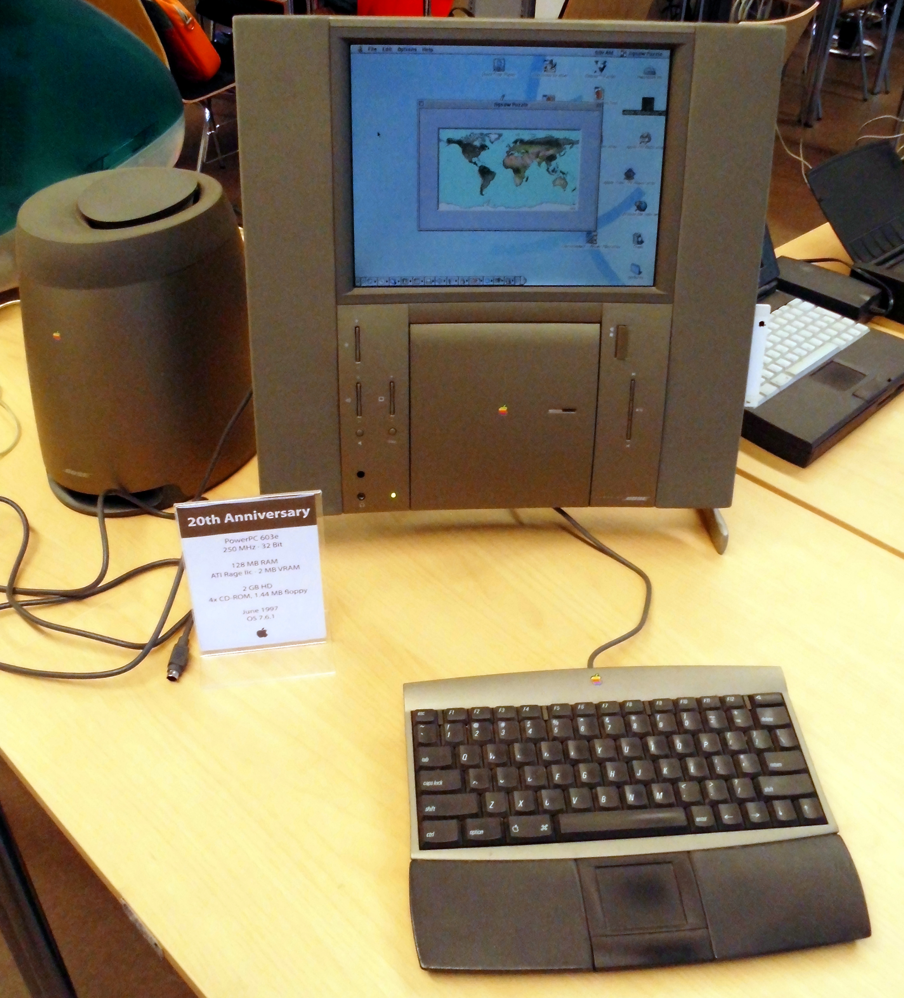 Twentieth Anniversary Macintosh at the Vintage Computing Festival Berlin 2014